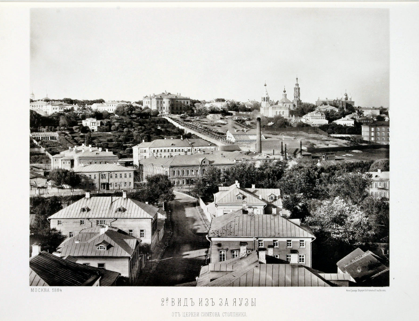 Plate 21. View of Moscow (Vorontsovo Pole area) across the Yauza River, from church of St. Simon Stylite.